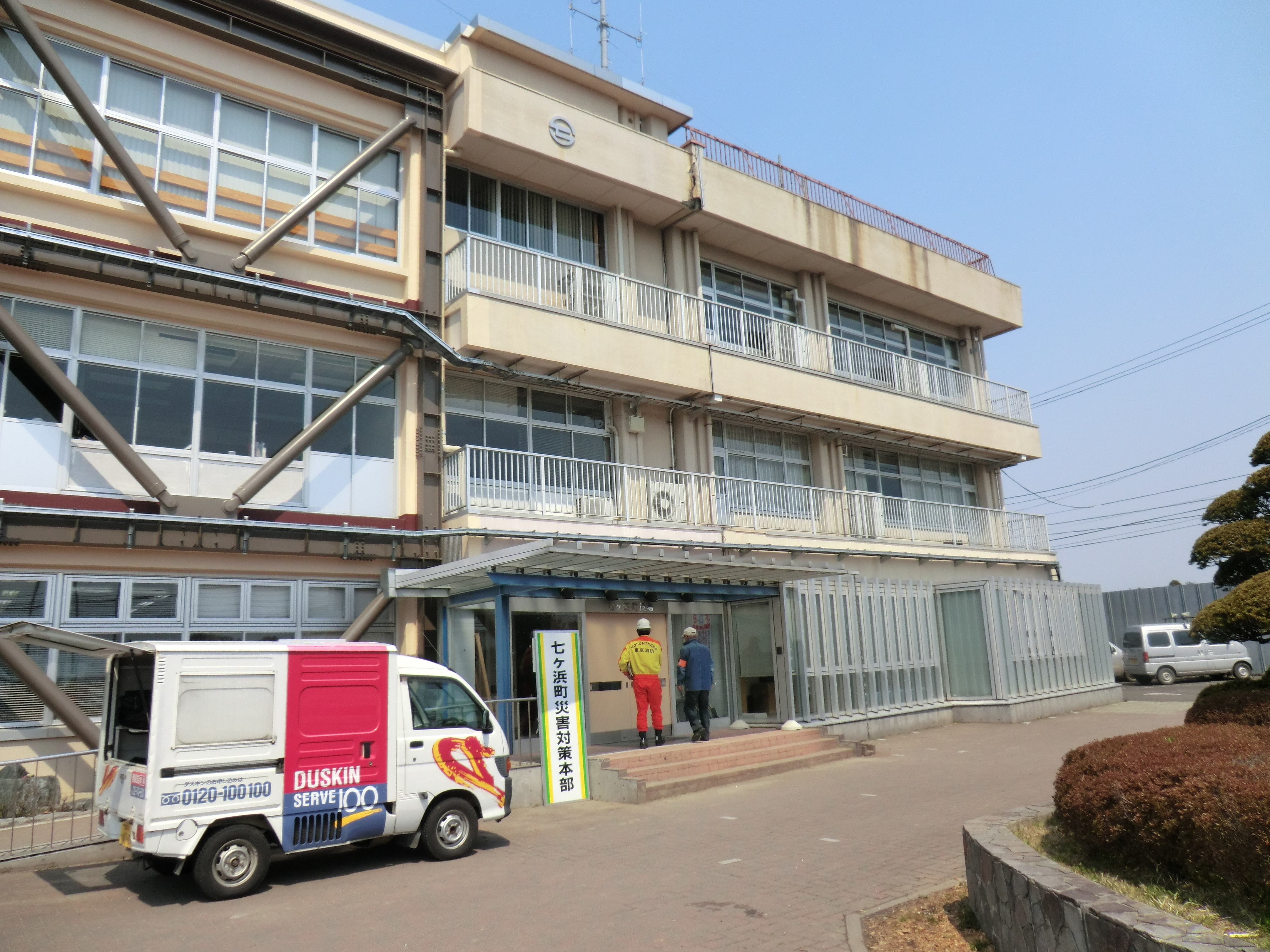 Shichigahama Town Hall, as a disaster countermeasures office, in Shichigahama, Miyagi.